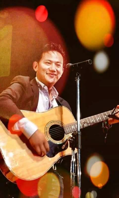 Nepali Popular Singer Raju Lama singing on stage.